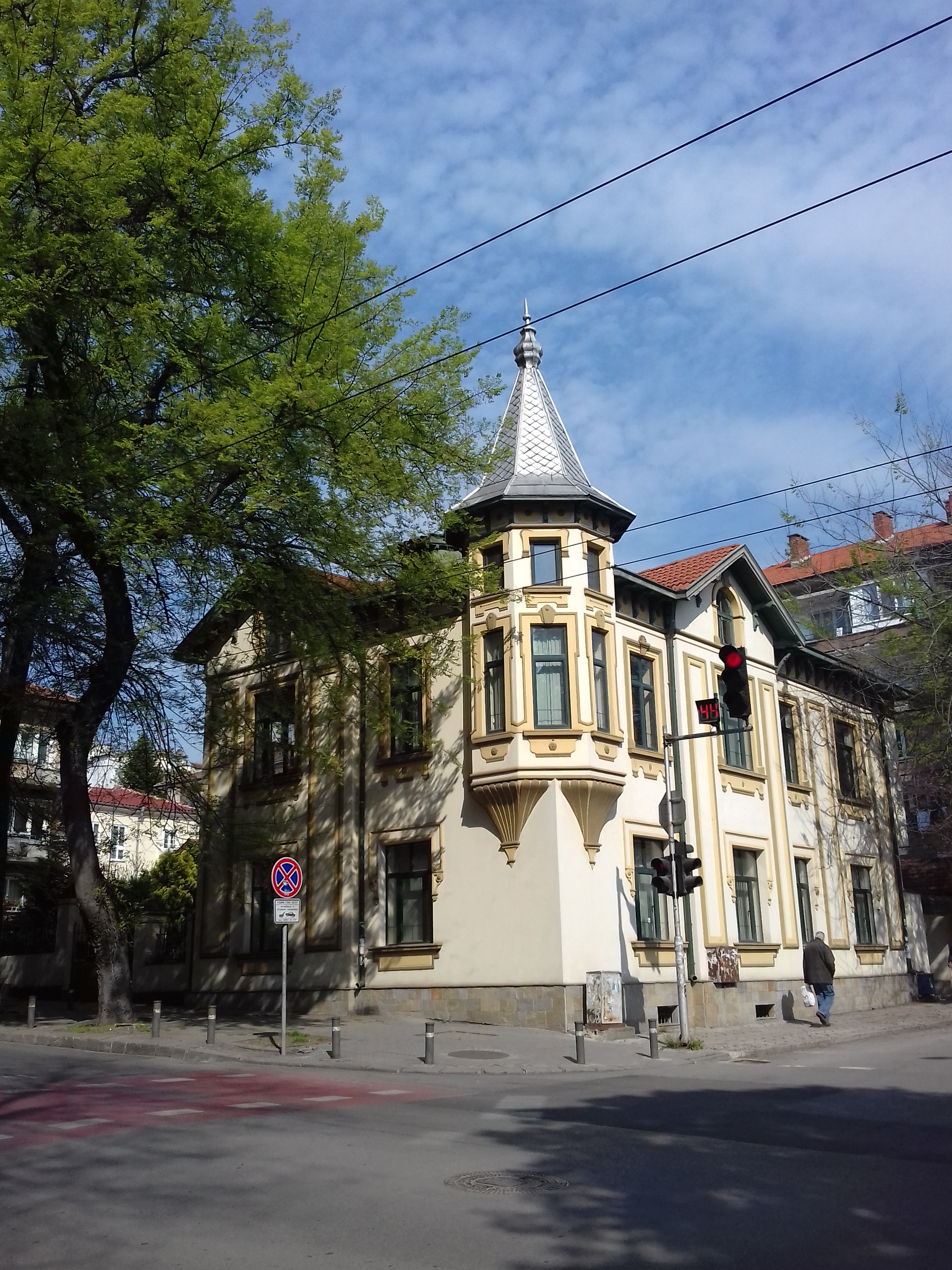 Bunardzhievi House in Stara Zagora, Bulgaria